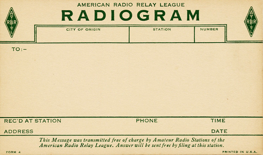 ARRL Radiogram delivery form postcard (front side).